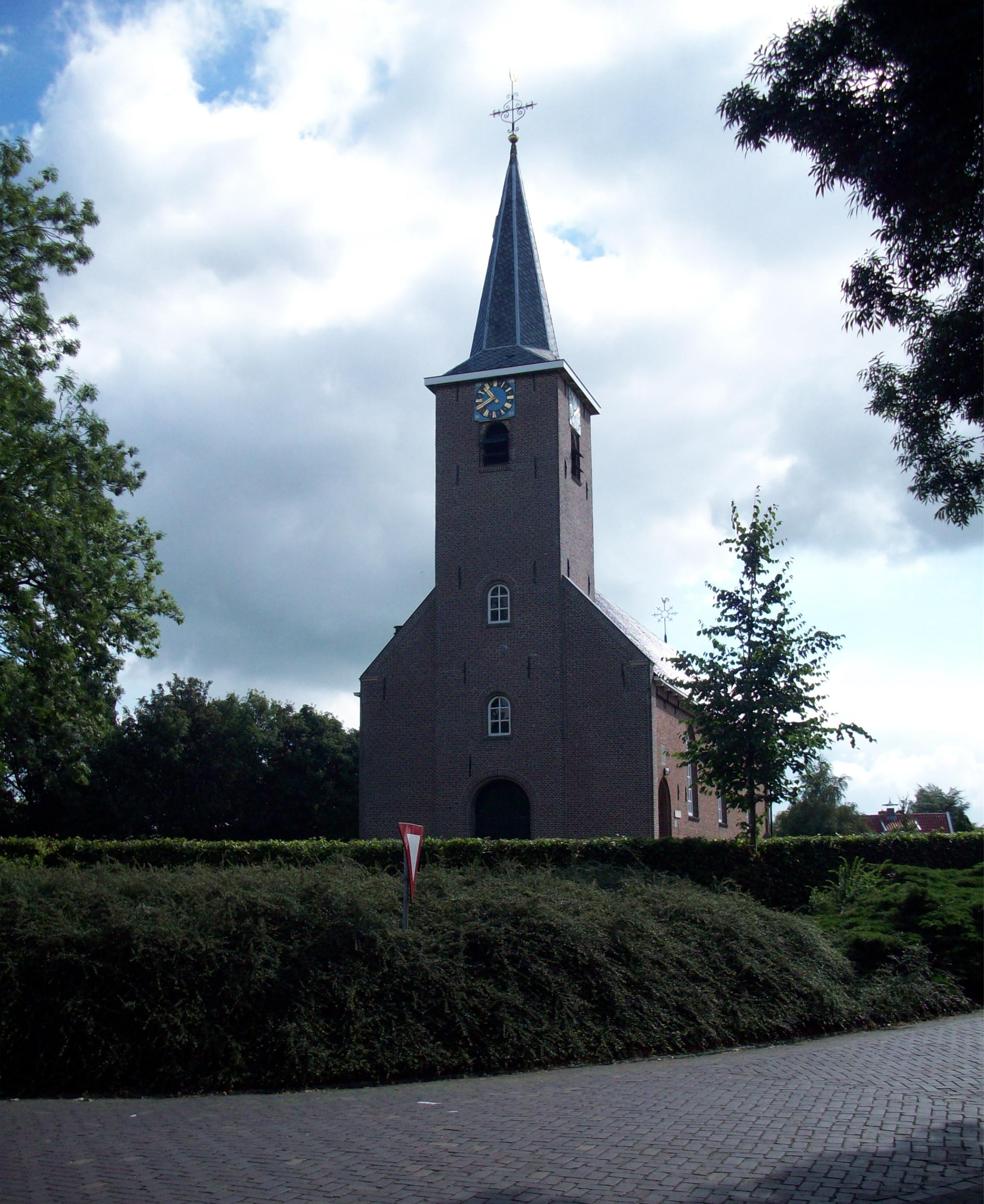 The church of Garyp, in the Dutch province of FrieslandFrysk: De tsjerke fan Garyp